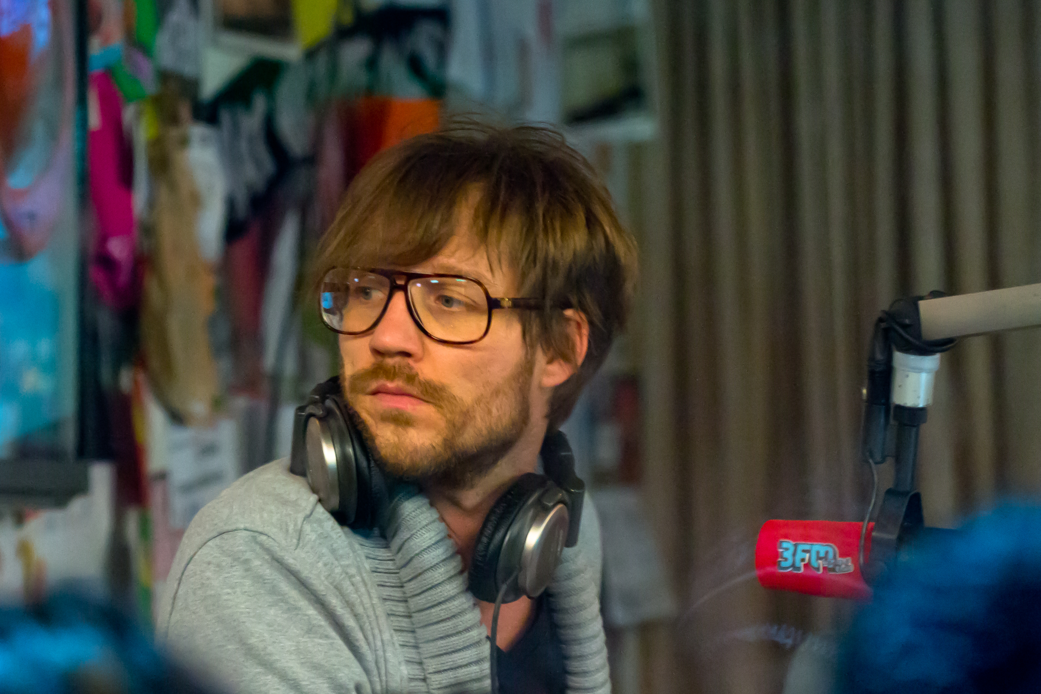 Giel Beelen inside the glass house during Serious Request 2012 in Enschede, the Netherlands.